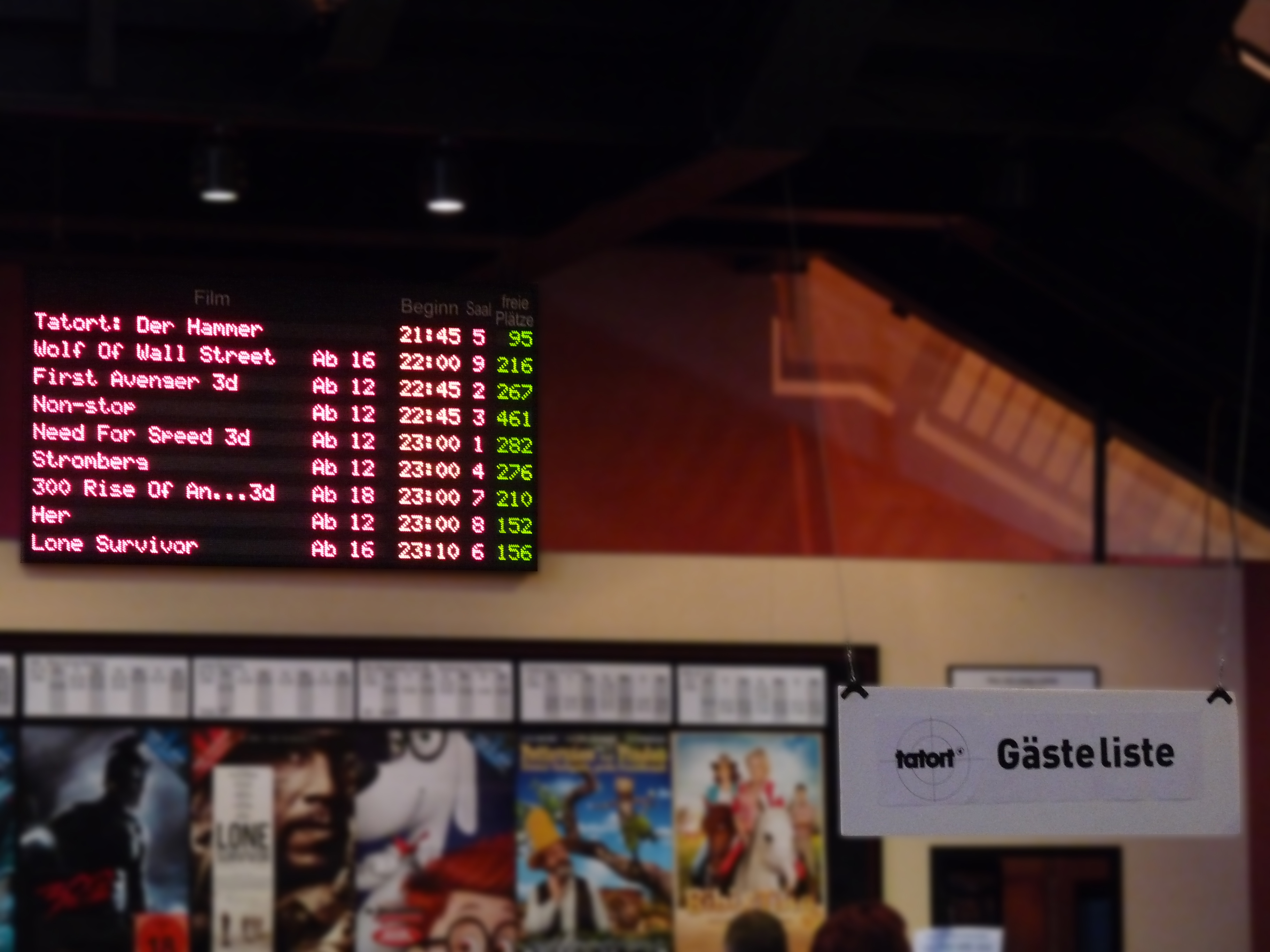 Premiere of Tatort: Der Hammer in the Cineplex in Münster